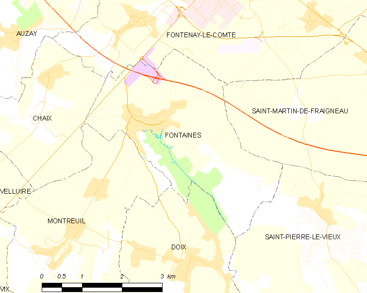 Map of French municipality Fontaines